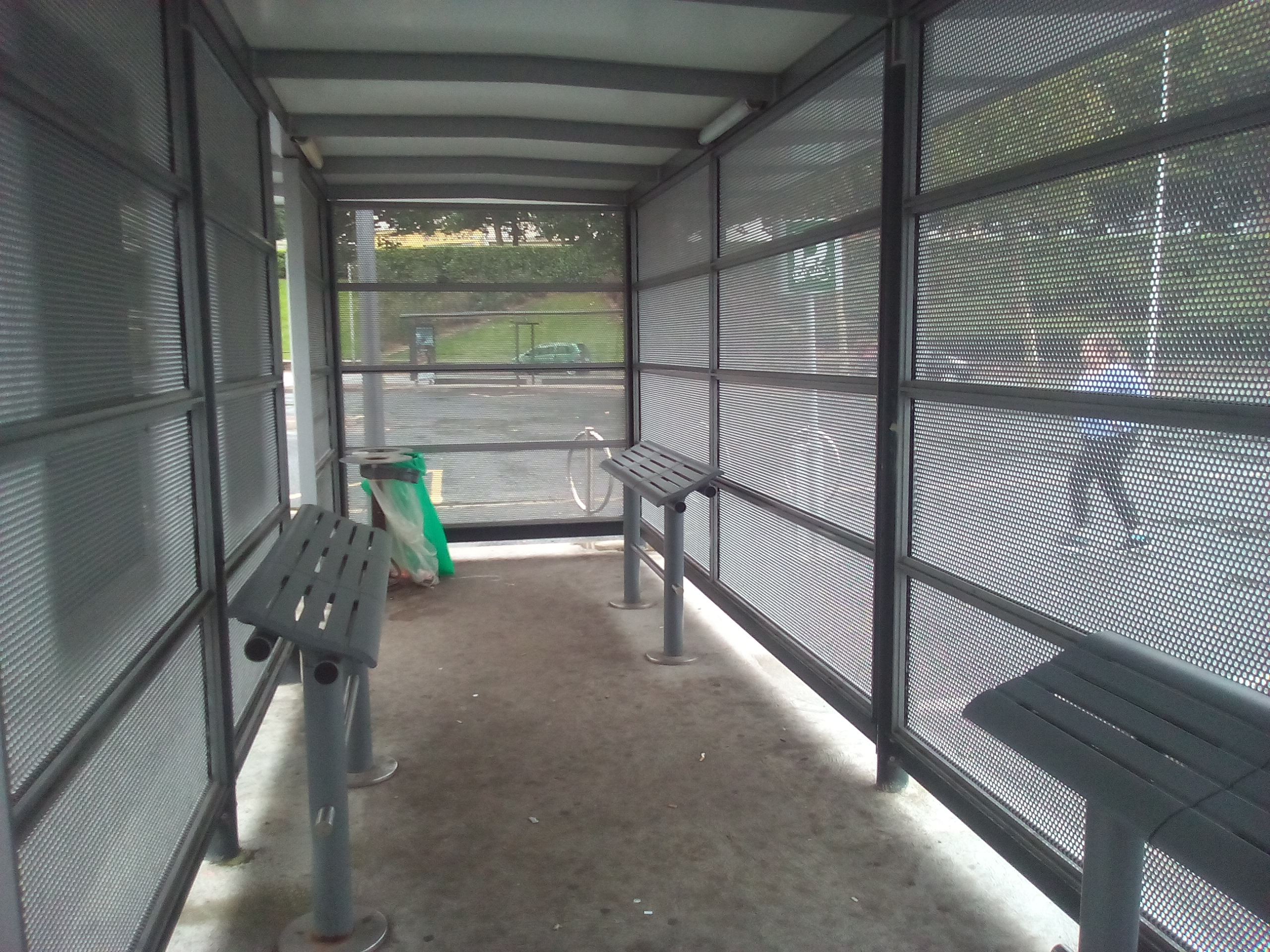 Fécamp (France) - railway station